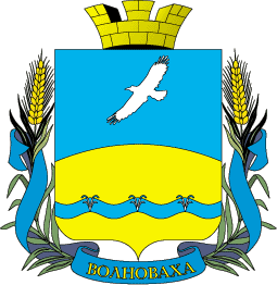 Old coat of arms of Volnovakha, Donetsk Oblast, Ukraine